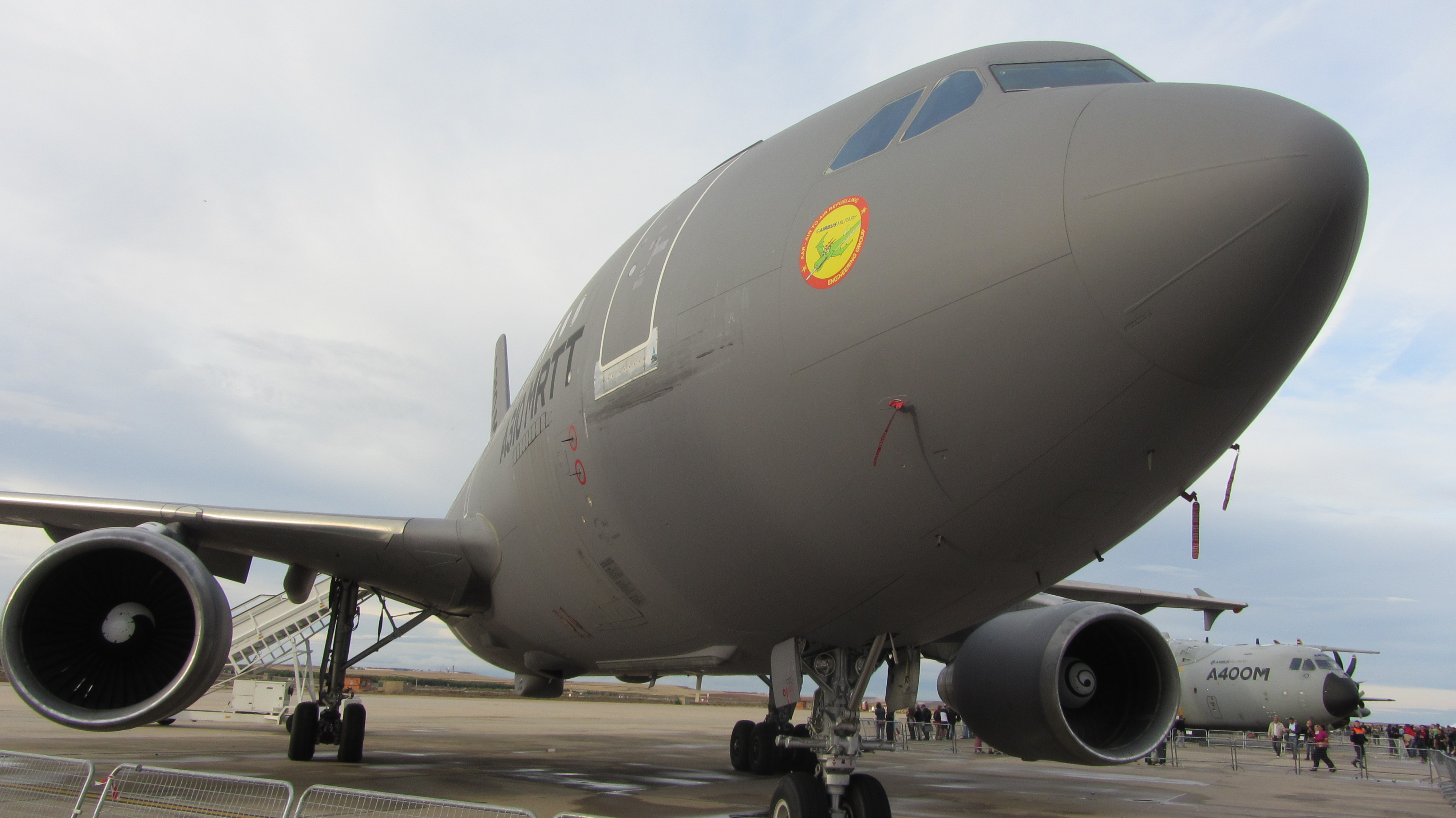 Airbus A-310 MRTT in the Aire75 International Airshow, held on October 11, 2014 at the Torrejón de Ardoz Air Base (Community of Madrid - Spain) to celebrare the 75th anniversary of the Spanish Air Force.